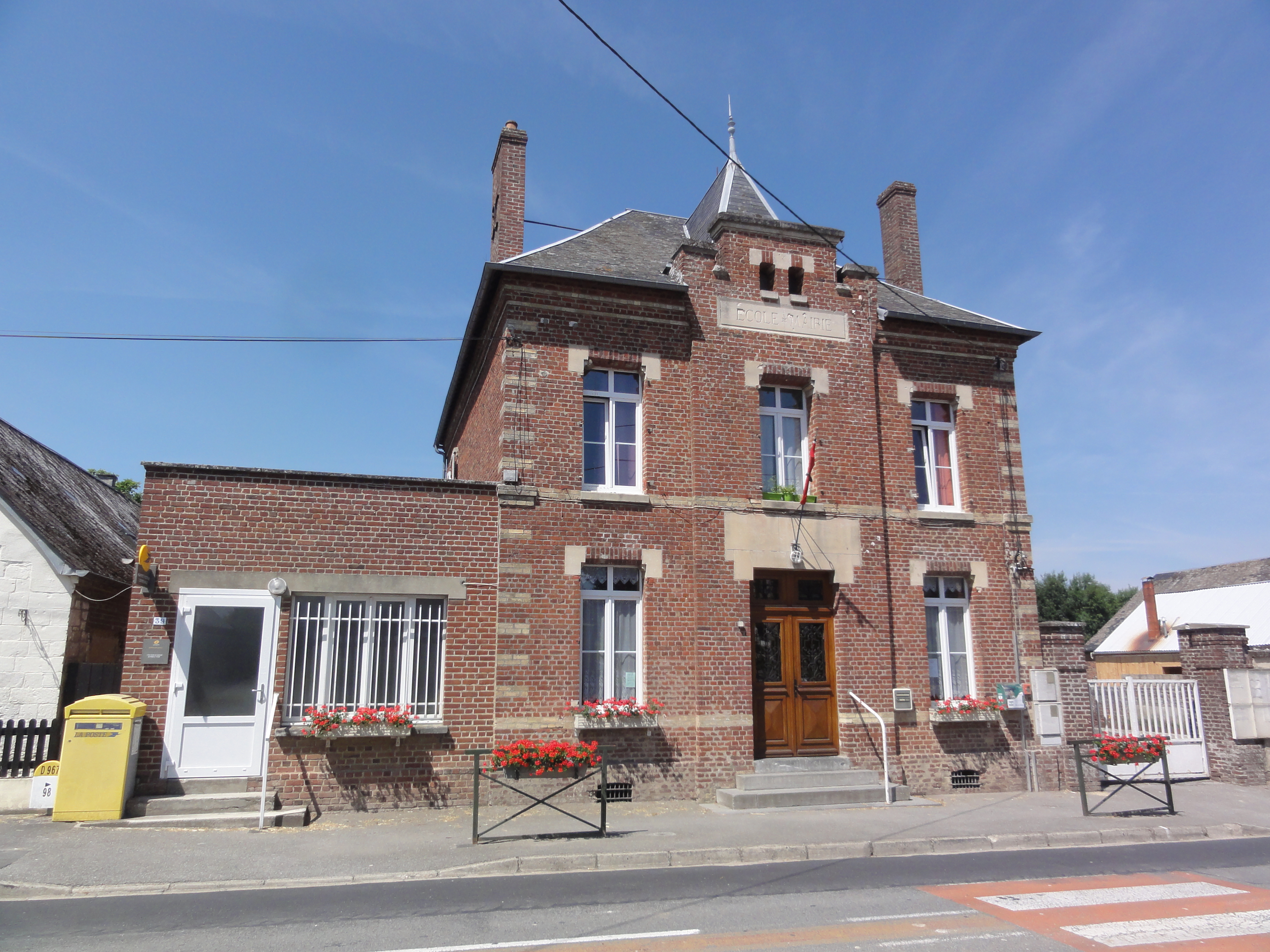 Monceau-le-Neuf-et-Faucouzy (Aisne) école et mairie